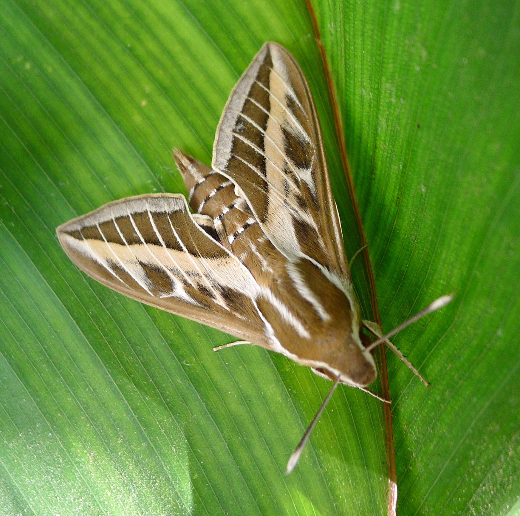 Striped Hawkmoth. Hyles livornica. Sphingidae